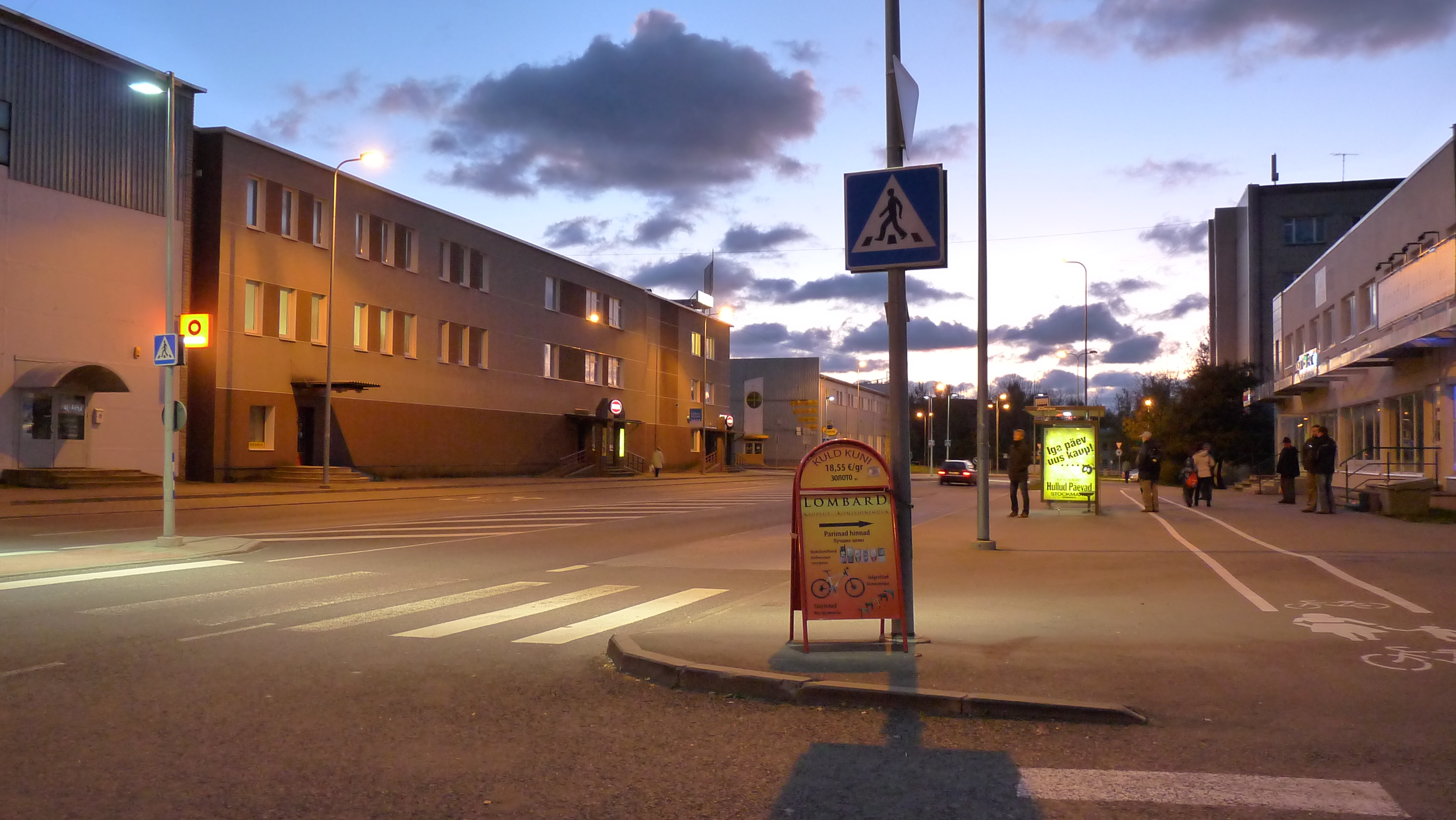 Punane street in Tallinn, Estonia.